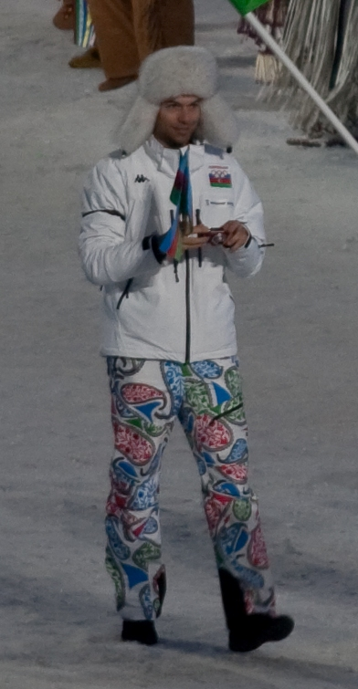 Jedrij Notz from Azerbaijan entering the stadium at the opening ceremonies of the 2010 Winter Olympics